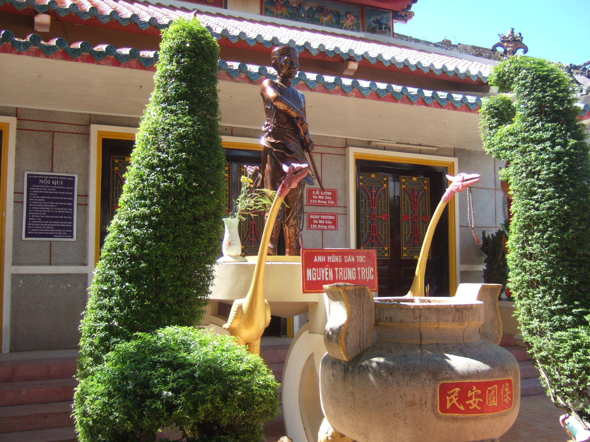 statue of Nguyen Trung Truc in Rach Gia, Vietnam